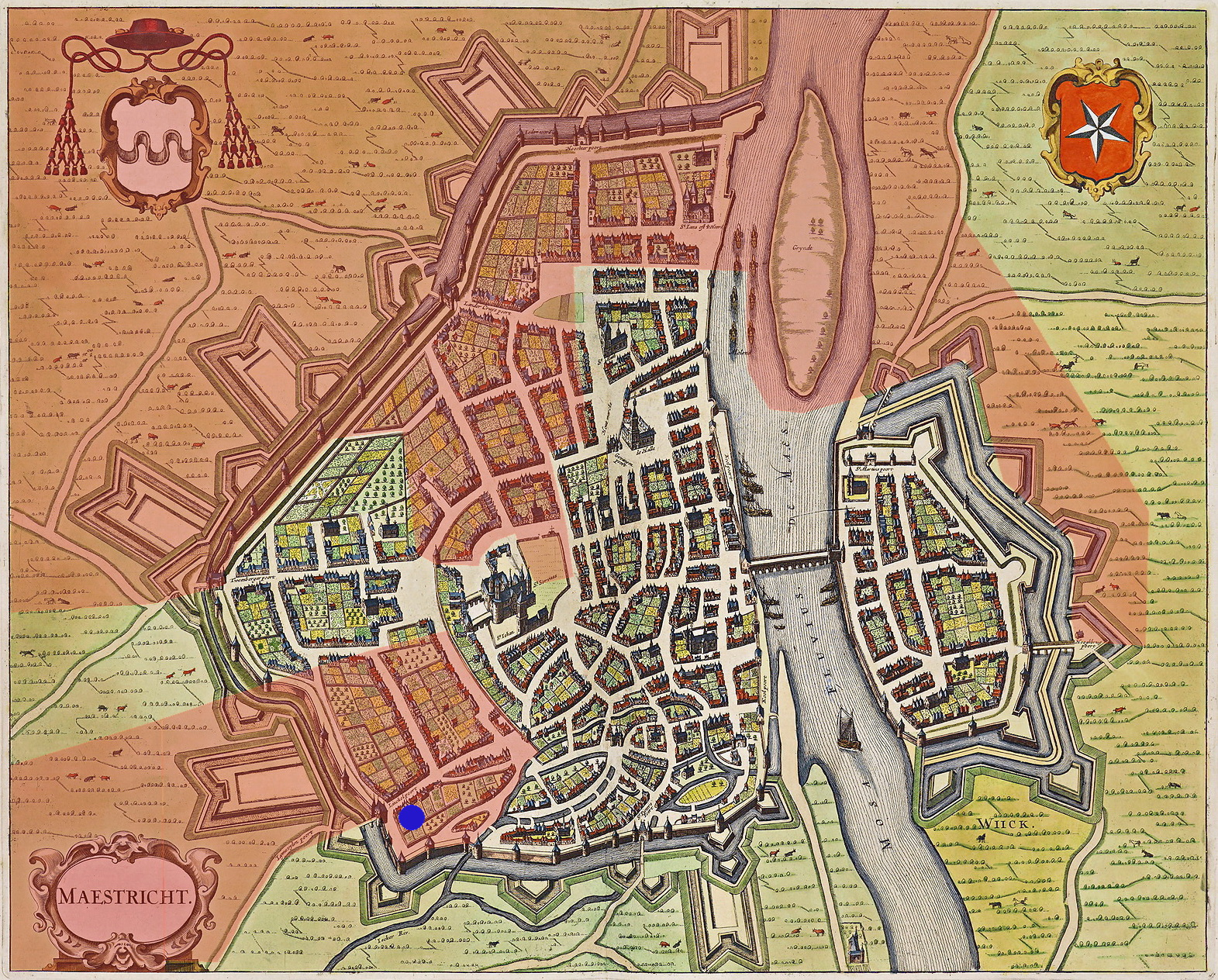 Old map of Maastricht. Plate 081 from the Stedenboek (book of towns) by Frederick de Wit from 1698. The map has been digitally edited by kleon3 to mark the territory of the County of Vroenhof in and around Maastricht (losely based on Map 3 in: Ubachs/Evers, Historische Encyclopedie Maastricht, Zutphen, 2005). Vroenhof was a small county, a remnant of early medieval royal posessions, pertaining to the Duchy of Brabant from 1202 onwards. The blue dot marks the location of the Hof van Lenculen, the central administration building of the county.